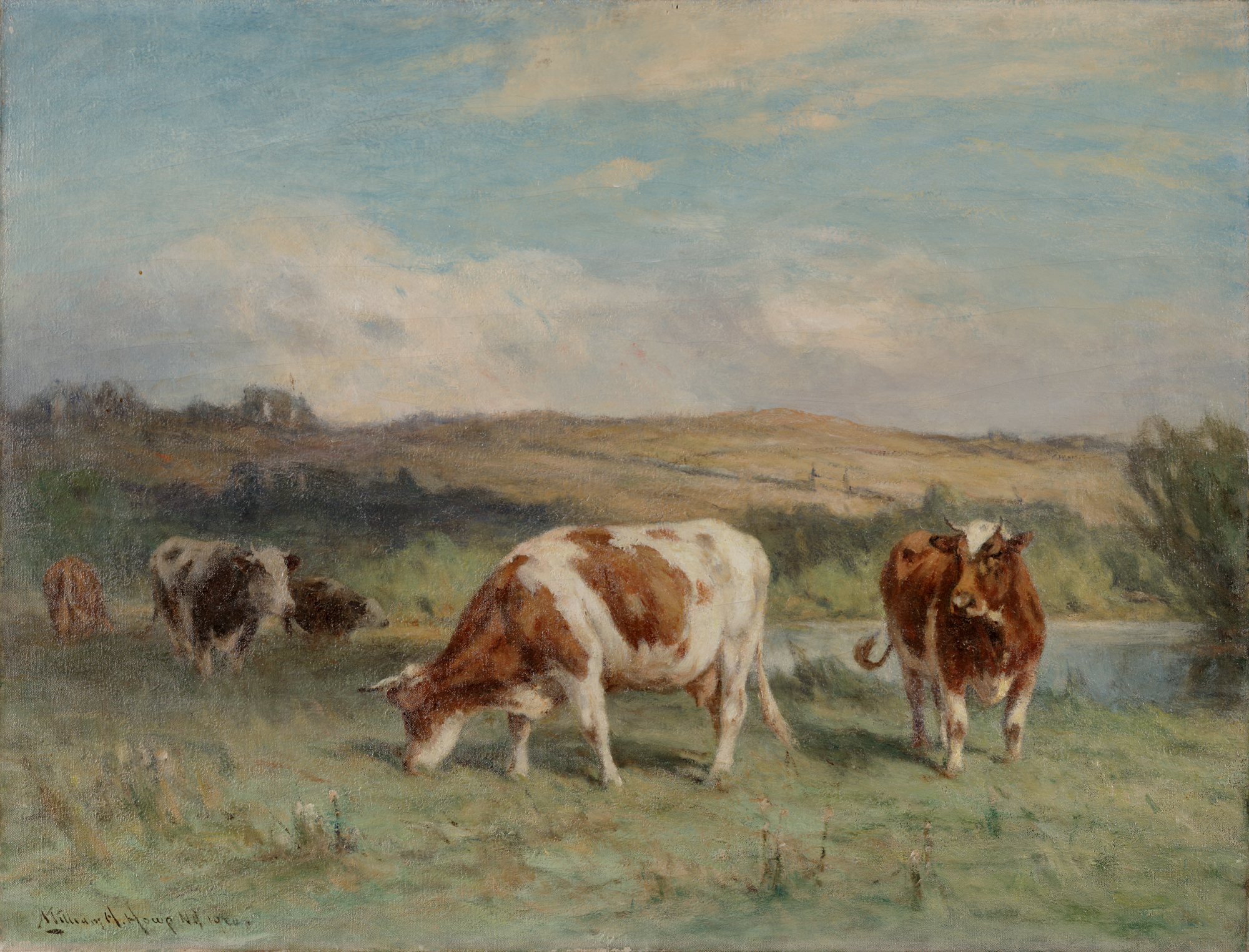 Painting: Lyme Pastures, by William Henry Howe. Current location: Dallas Museum of Art